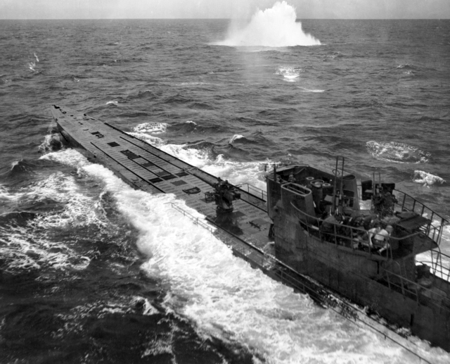 German submarine U-848 under attack in south Atlantic (10-09 S, 18-00 W) – second pass of LT Charles A. Baldwin, USNR, PB4Y-1 107-B-12 of VB-107 AWM Caption: ATLANTIC. C.1943. SAILORS TAKE COVER AROUND THE CONNING TOWER OF A GERMAN TYPE IXC SUBMARINE UNDER ATTACK FROM A VERY LOW FLYING AIRCRAFT (NOT IN THE PHOTOGRAPH). A DEPTH BOMB EXPLODES IN THE DISTANCE. NOTE THE TWO TWIN 2 CM FLAK 38 GUNS IN THE CONNING TOWER AND THE 10.5 CM SKC/32 DECK GUN. (NAVAL HISTORICAL COLLECTION).